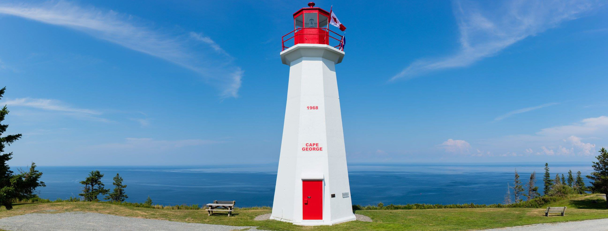 Situated in the Northumberland Shore region overlooking the waters of St. George’s Bay. The lighthouse sits in a lovely park atop cliffs overlooking the Bay. Cape Breton and Prince Edward Islands can be seen on a clear day. The original lighthouse was erected in 1861 and was destroyed by fire in 1907. The present lighthouse is the third one located on this site which was built in 1968.